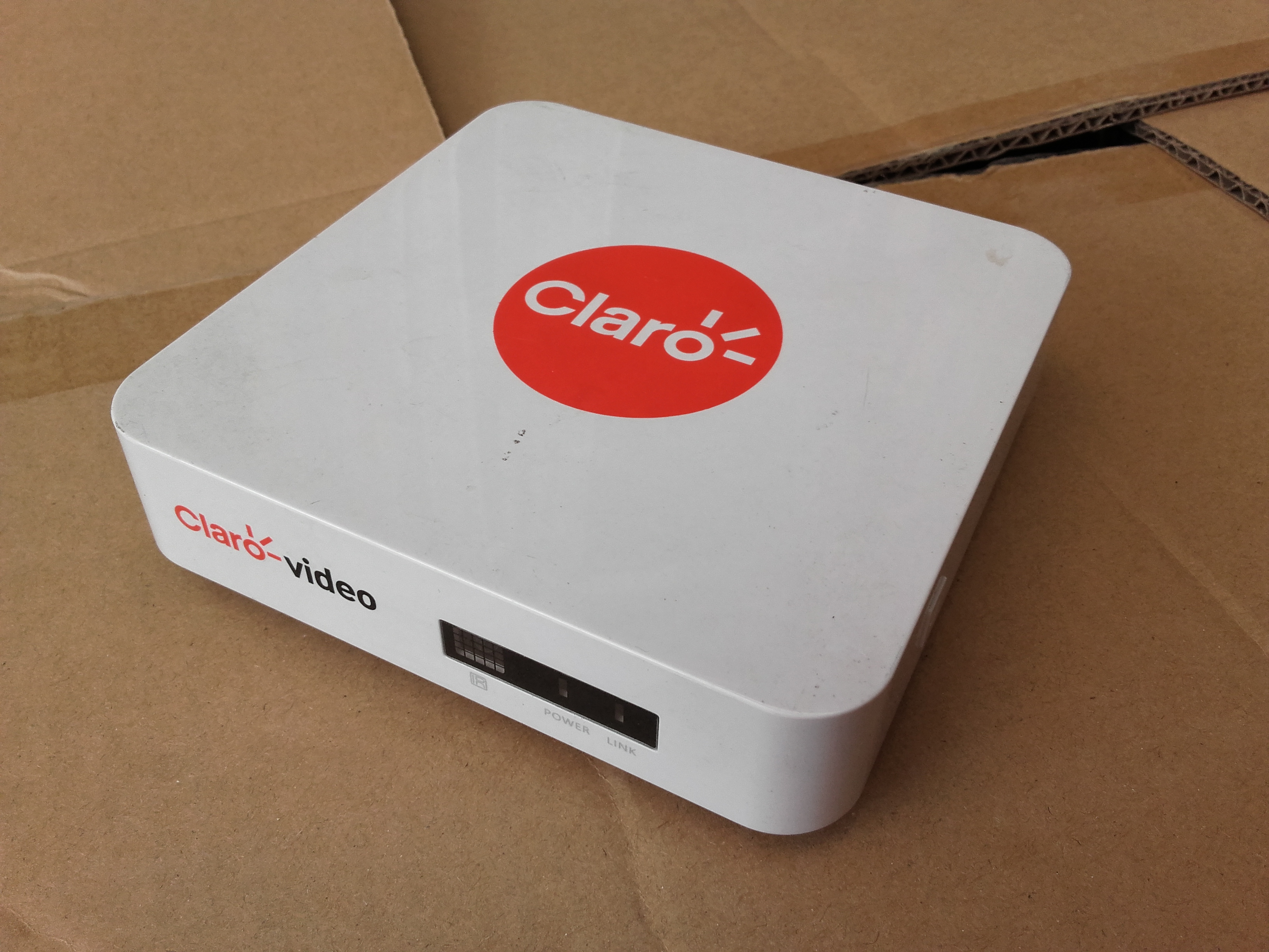 Claro video set top box